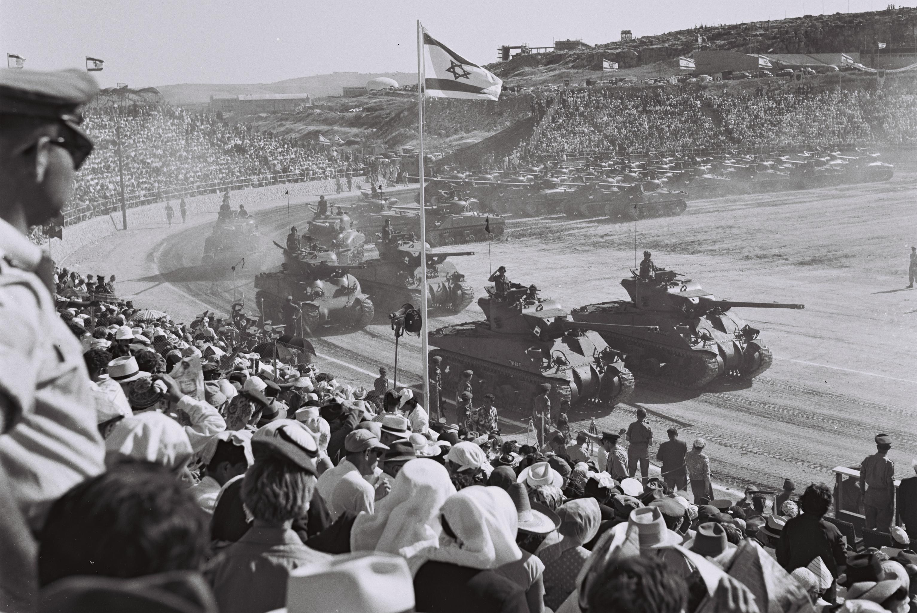 Unit of Sherman tanks during the parade on independence day at the university stadium in Jerusalem.